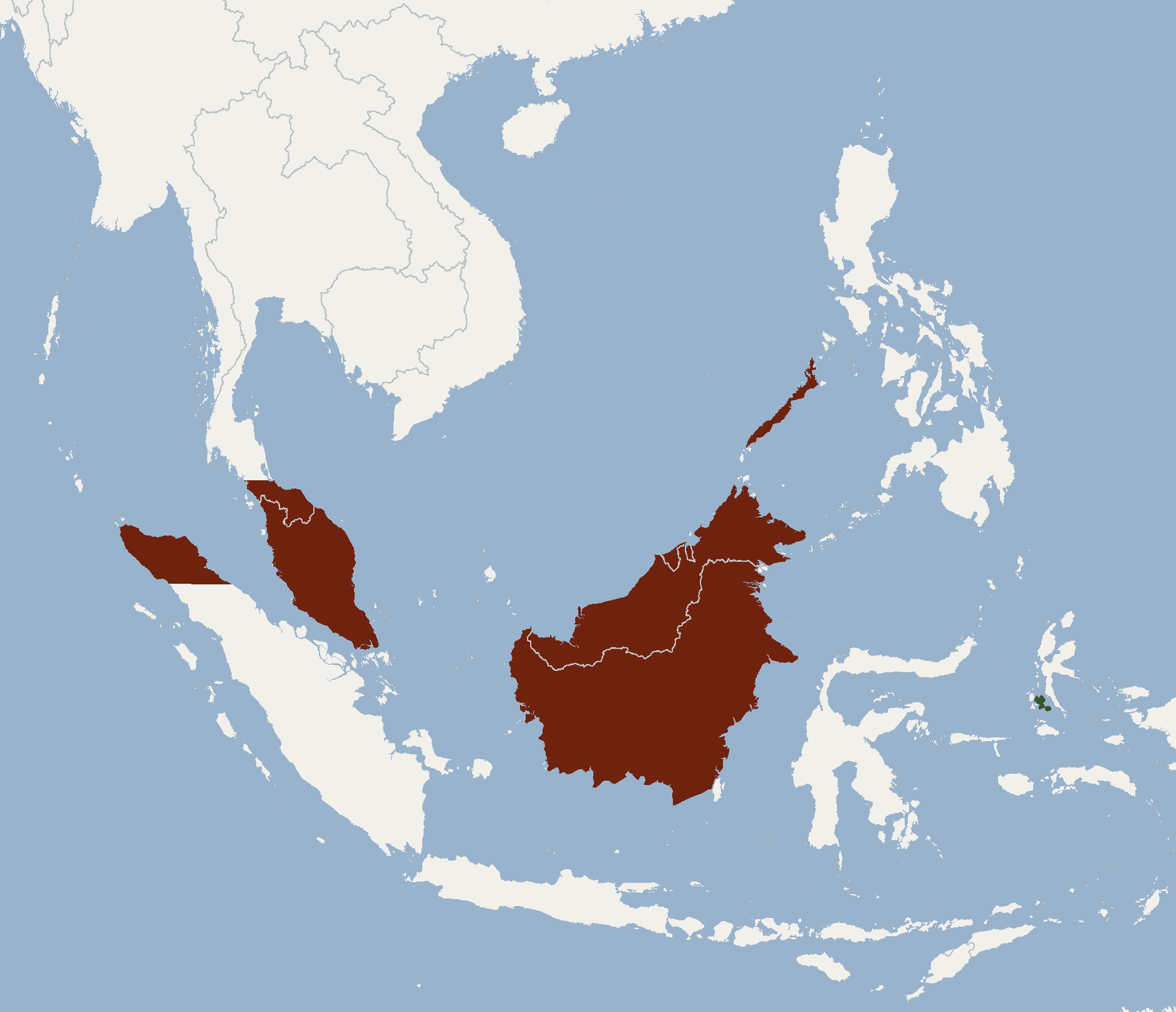 According to Csorba & al., 2015